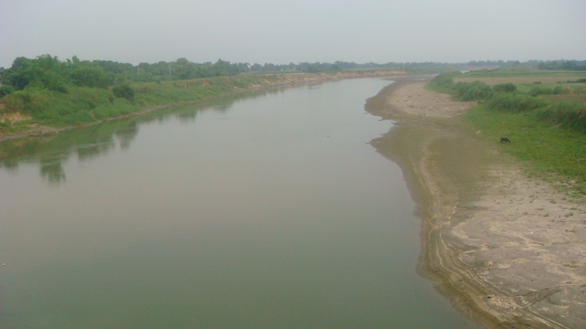 Pampanga river view from Arayat bridge